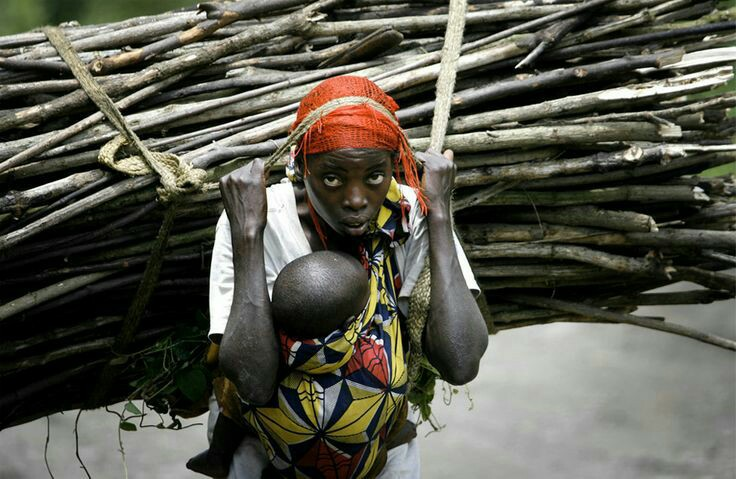 This is an image of "African people at work" from Uganda